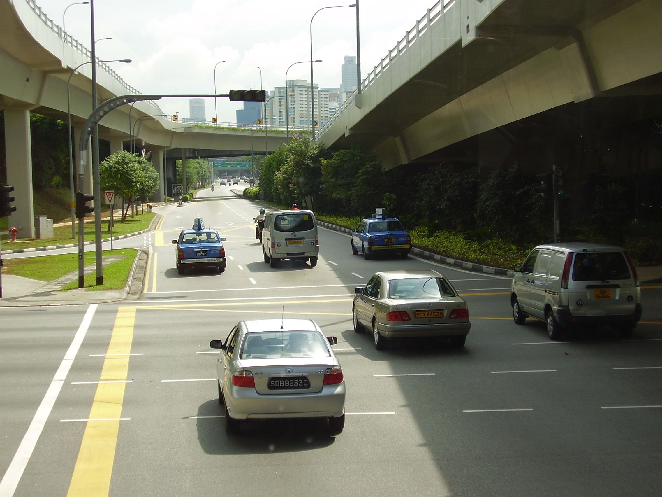 Junction of Keppel Road (towards ECP), Kampong Bahru Road and Telok Blangah Road.